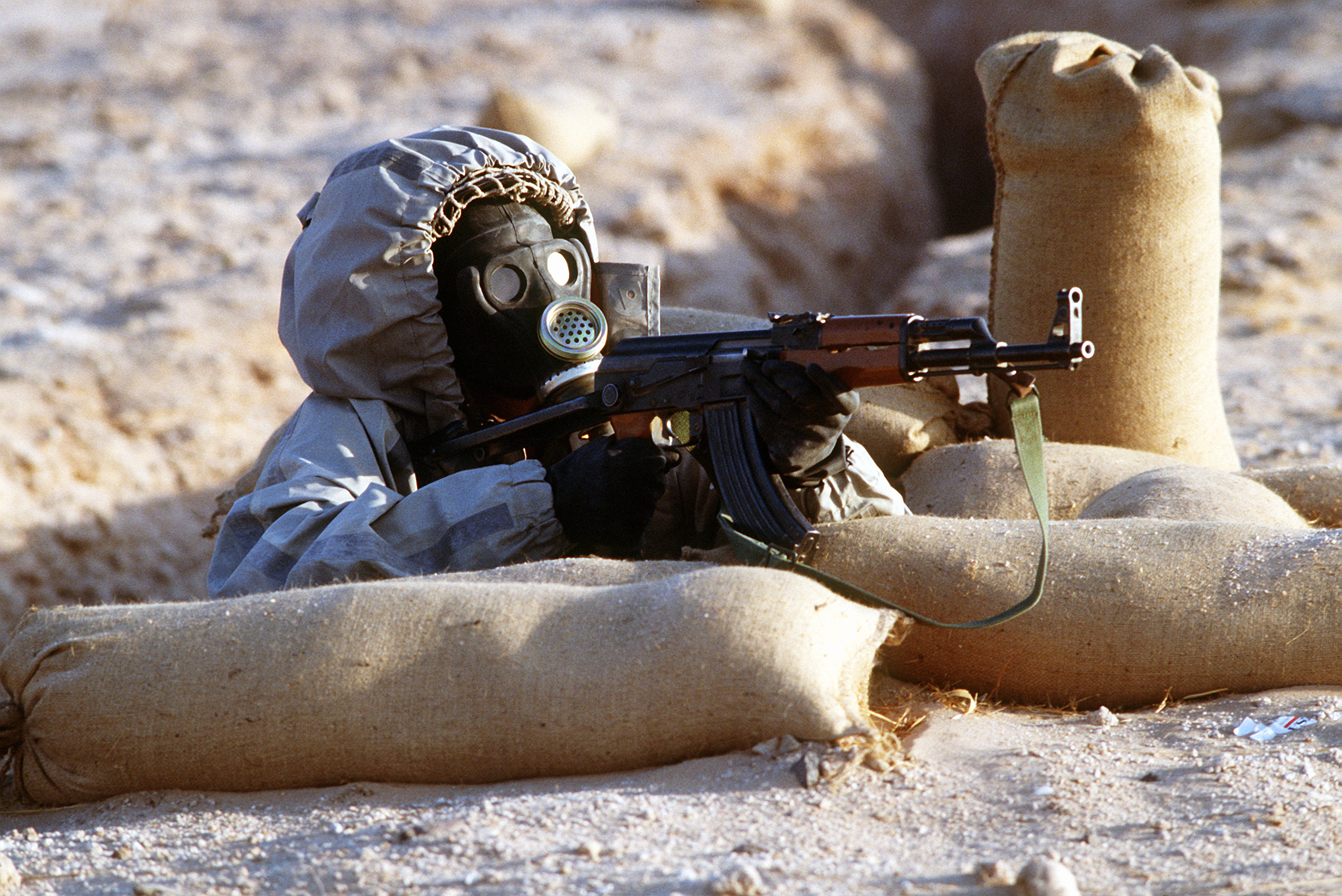 A Syrian soldier aims an TYPE 56-1S (China made AK47) assault rifle from his position in a foxhole during a firepower demonstration, part of Operation Desert Shield. The soldier is wearing a Soviet-made Model ShMS nuclear-biological-chemical warfare masks.